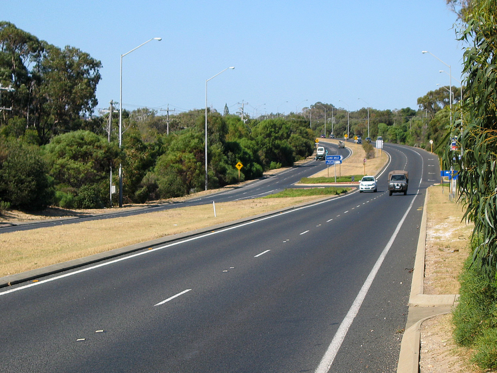 Old Coast Road, Pleasant Grove, Mandurah, Western Australia